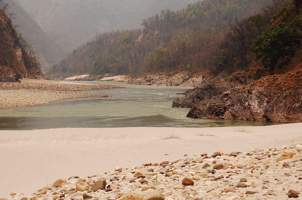 A beach on the banks of Ganges, Rishikesh.